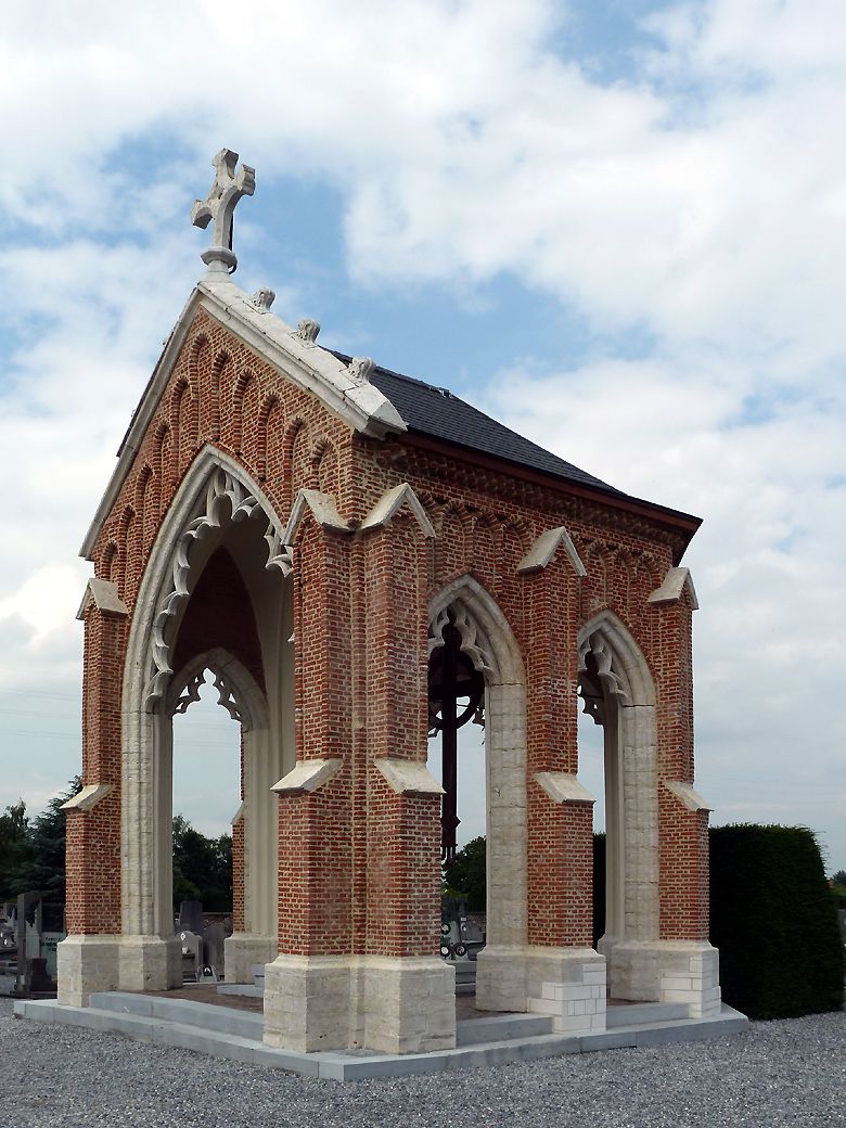 Tomb monument above the grave of Dean Rochette, who was killed by the bombing of Tienen in 1944